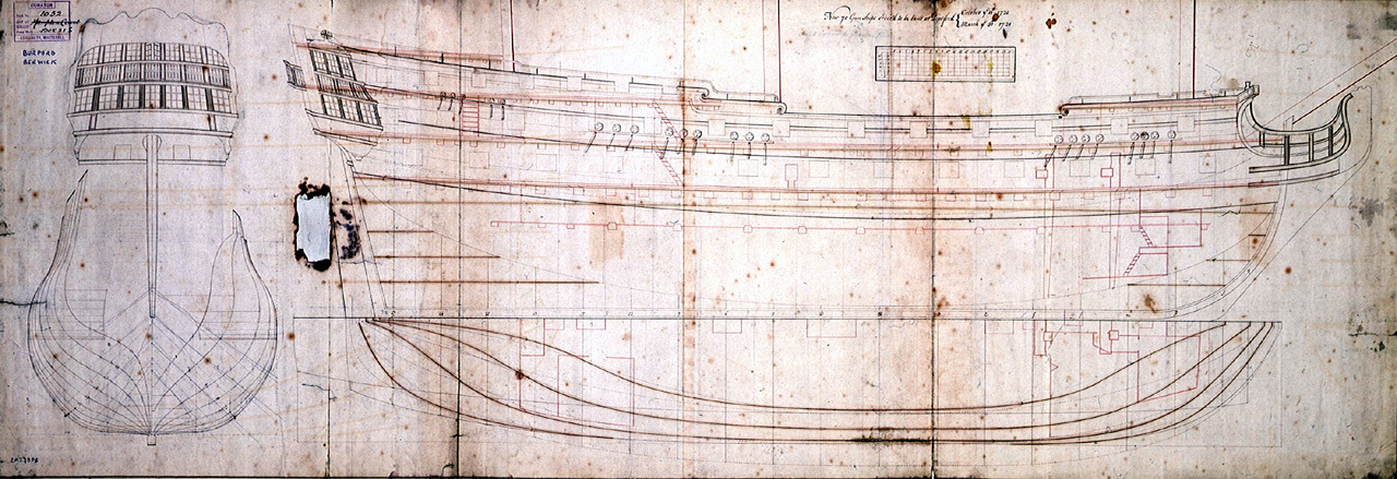 'Burford' (1722); 'Berwick' (1723); 'Hampton Court' (1709) Scale: 1:48. Plan showing the body plan, stern board outline, sheer lines with inboard detail, and longitudinal half-breadth with some deck detail for 'Burford' (1722) and 'Berwick' (1723), both 1719 Establishment 70-gun Third Rate, two-deckers built at Deptford Dockyard. In pencil is the draught for 'Hampton Court' (1709), a 70-gun Third Rate, two-decker, which may have been drawn for comparative purposes. 'Burford' (1722); 'Berwick' (1723); 'Hampton Court' (1709)